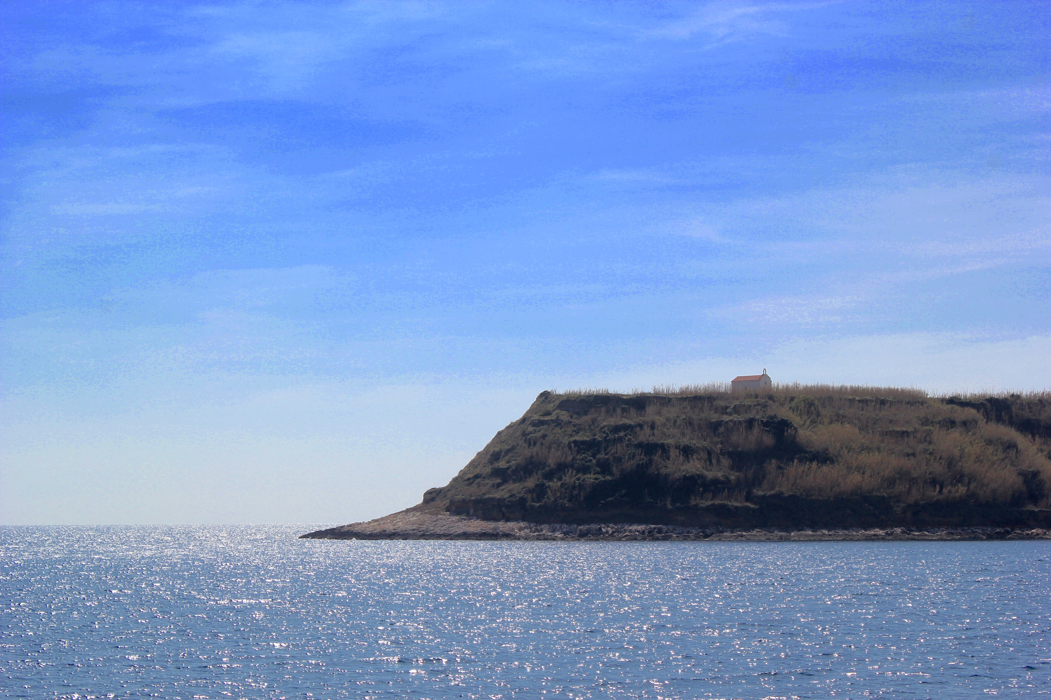 The old monastery on the island